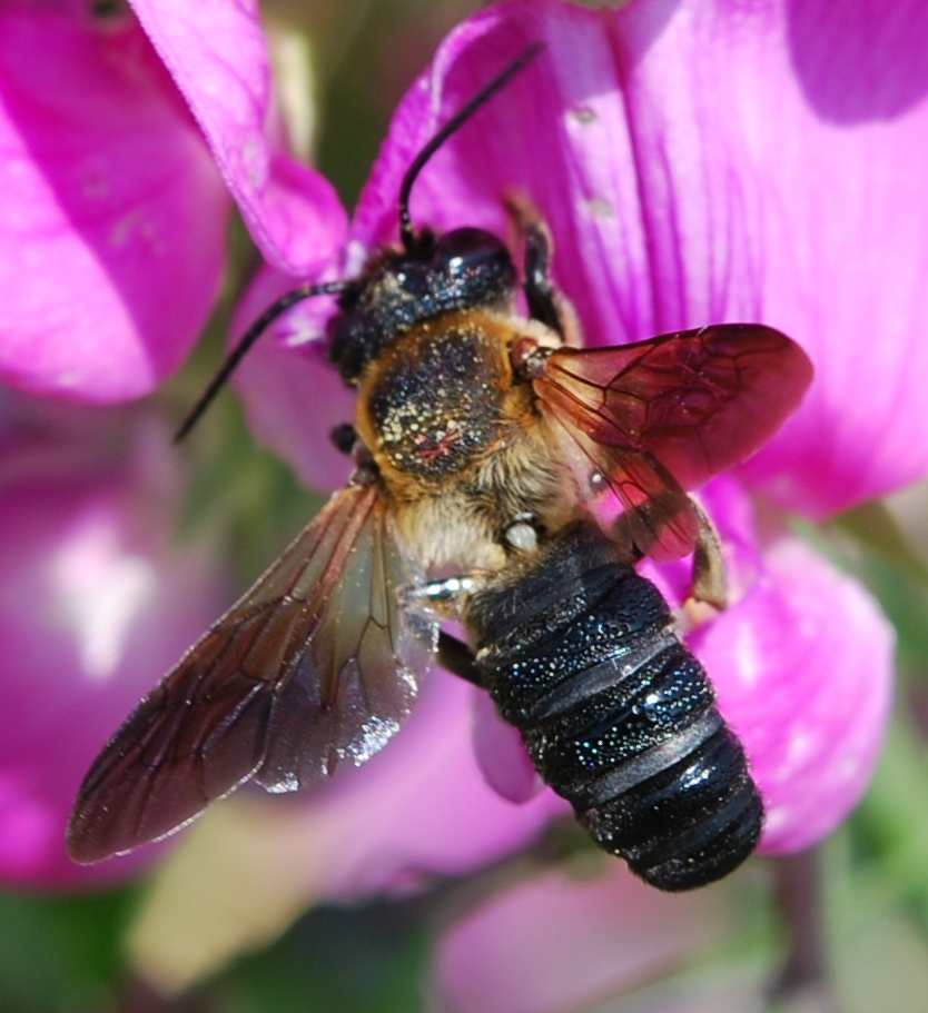 Megachile sculpturalis, the Giant Resin Bee. Taken in Easton, Pennsylvania, US.